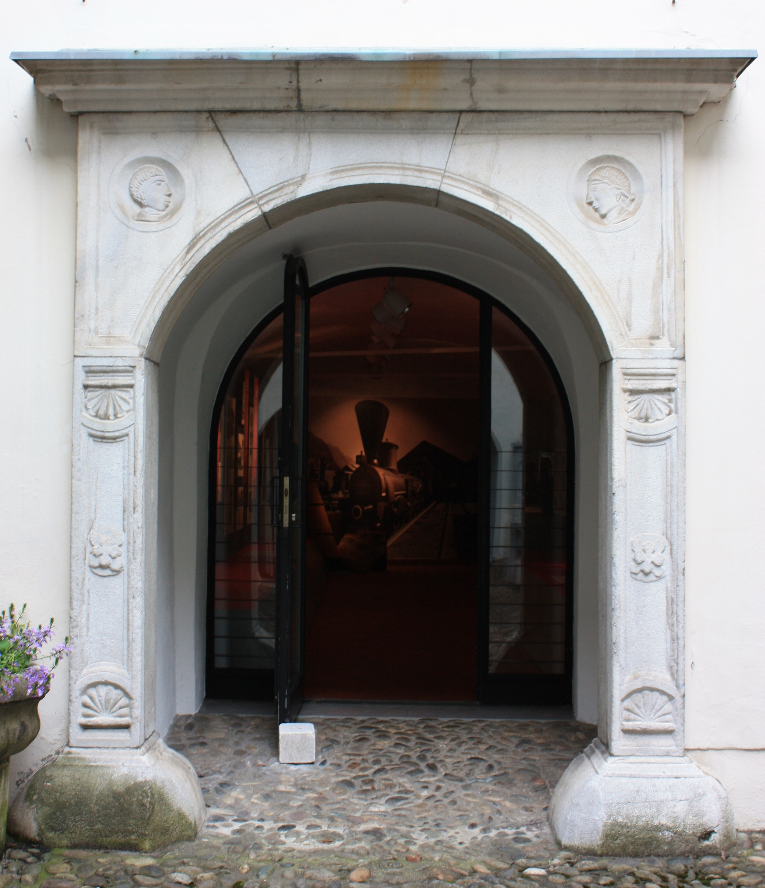 Portal of City museum Villach Street:Widmanngasse Community:Villach